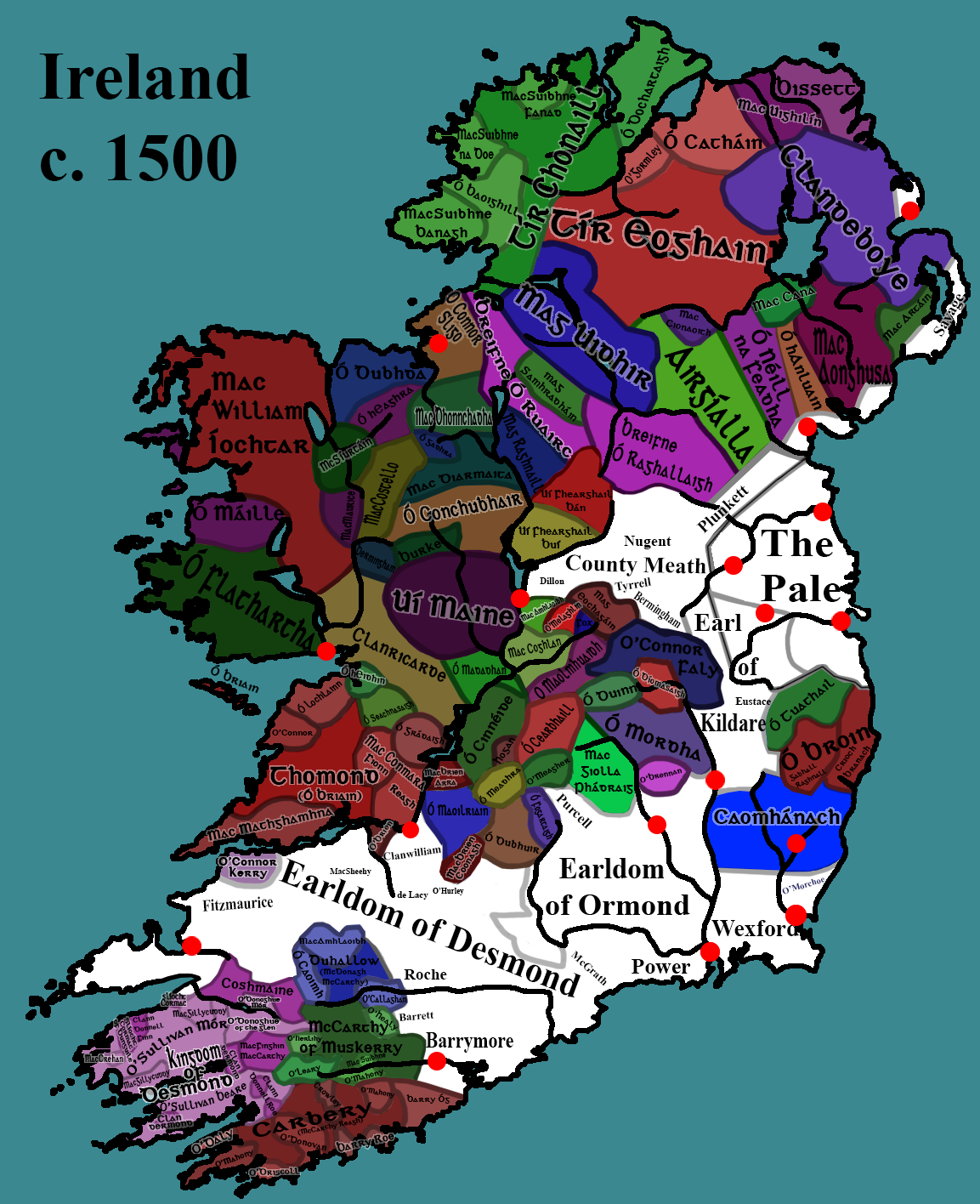 Political map of Ireland circa 1500 showing the approximate territories of the various Gaelic and Anglo-Norman Lordships. Key: Old English (Norman) controlled areas and the Pale are in white and use a different font, whereas Gaelic controlled areas are in various colours. Lighter shade of a colour around a deeper colour can represent a semi-independent kingdom under nominal vassalage of a larger kingdom who they can share kinship ties with. Cities/Important or strategic fortifications are marked with red dots (not comprehensive).